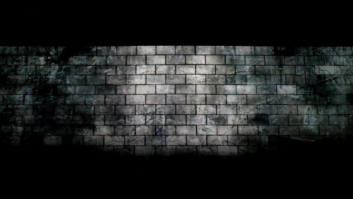 I took this photo from the 25th row, center stage, using a Kodak Playsport camera.